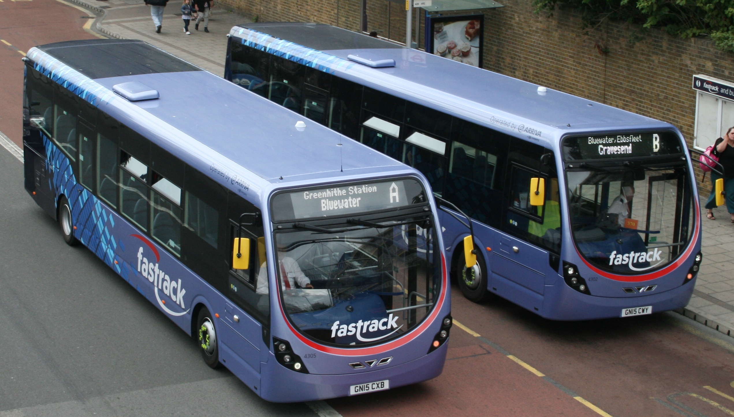 Literally. Arriva Southern Counties 4305 (GN15 CXB) on Fastrack A and 4302 (GN15 CWY), Dartford